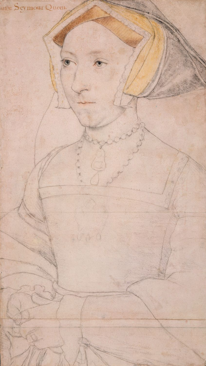 Portrait of Jane Seymour. Black and coloured chalks, pen and Indian ink, metalpoint, on pink-primed paper, 50.3 × 28.7 cm, Royal Collection, Windsor Castle. The portrait matches the depiction of Jane in Holbein's Whitehall wall-painting, which now survives only in a copy by Remigius van Leemput. It was also used as the preparatory study for Holbein's oil portrait of Jane. The drawing suffers from rubbing, as a result of repeated handling. The metalpoint lines are signs of its use as the basis for the replicas required of a royal image. Jane Seymour (1508–1537) was Henry VIII of England's third wife. Henry married her in 1536, shortly after the execution of Anne Boleyn, and she died the following year, twelve days after giving birth to Henry's son and heir, the future Edward VI. As Henry wished, he was buried with Jane at Windsor Castle, the location of Holbein's sketch for the original painting. References Stephanie Buck, Hans Holbein, Cologne: Könemann, 1999, ISBN 3829025831, p. 109. K. T. Parker, The Drawings of Hans Holbein at Windsor Castle, Oxford: Phaidon, 1945, OCLC 822974, p. 47. John Rowlands, Holbein: The Paintings of Hans Holbein the Younger, Boston: David R. Godine, 1985, ISBN 0879235780, p. 232.